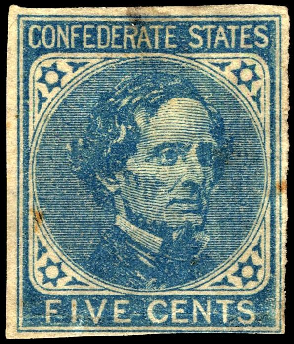 Confederate Postage stamp, 1862 issue, Jefferson Davis, 5c, blue